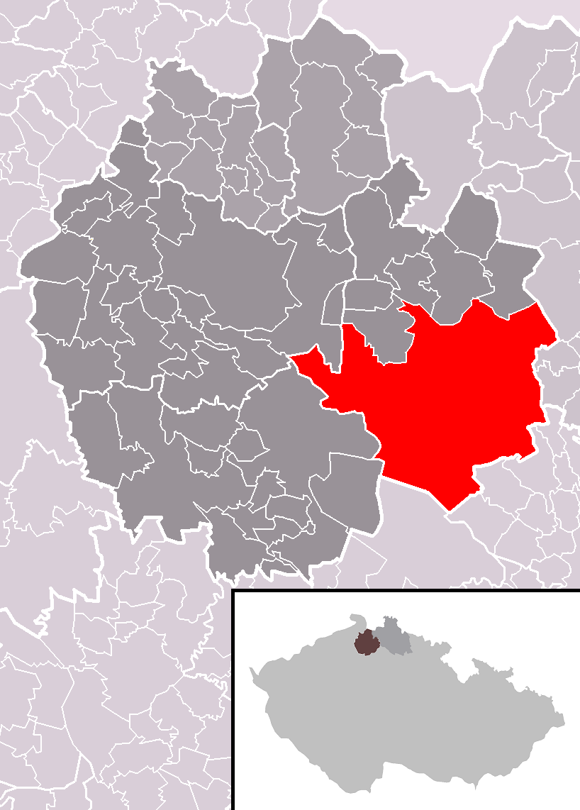 Location of Ralsko town within Česká Lípa District and administrative area of Česká Lípa as a Municipality with Extended Competence.